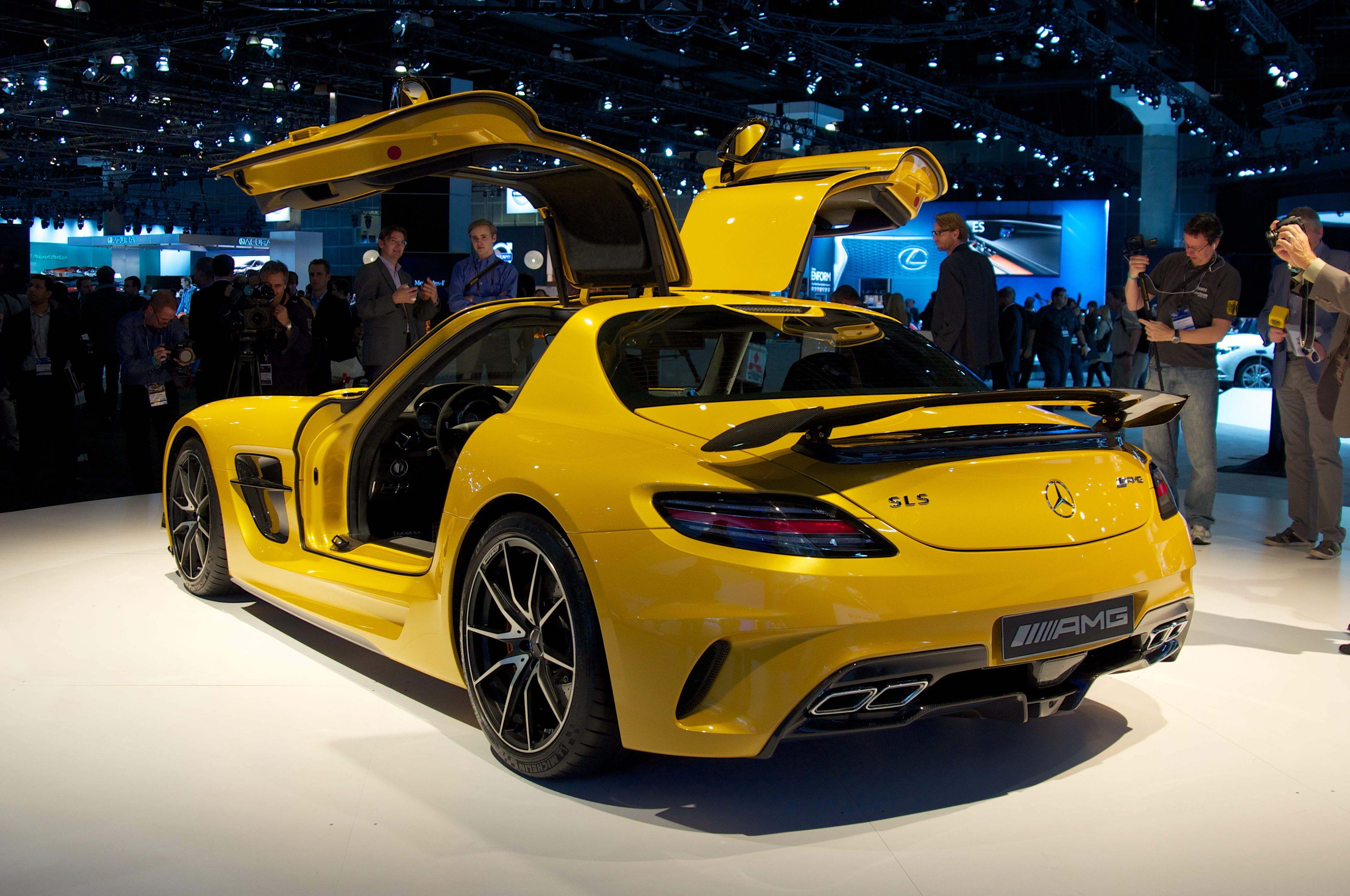 Seen at the 2012 Los Angeles Auto Show. Press day - Wednesday, November 28th. If you use one of my photos, please be so kind as to attribute me and link back to the photo's page. THANK YOU!